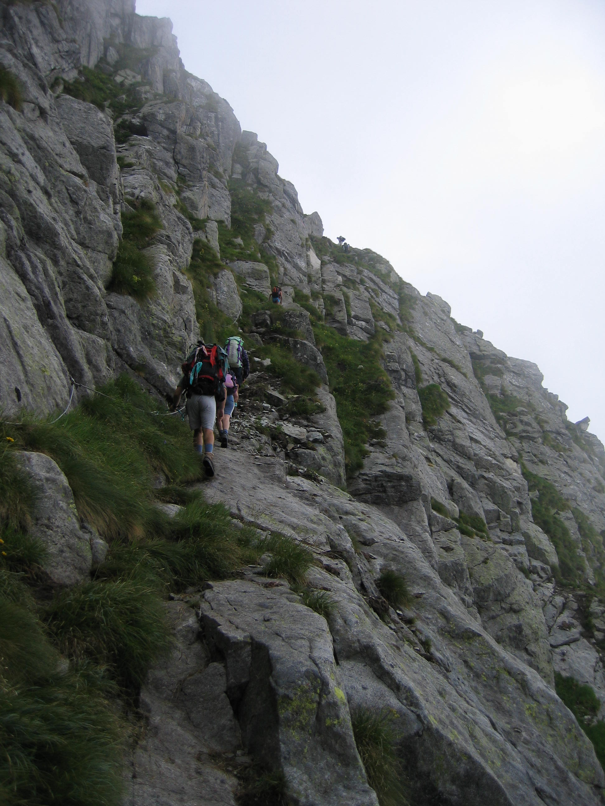 Path toward Passo Brescia, and Maria e Franco Hut, Italian Alps